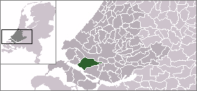 Map of new municipality Nissewaard)